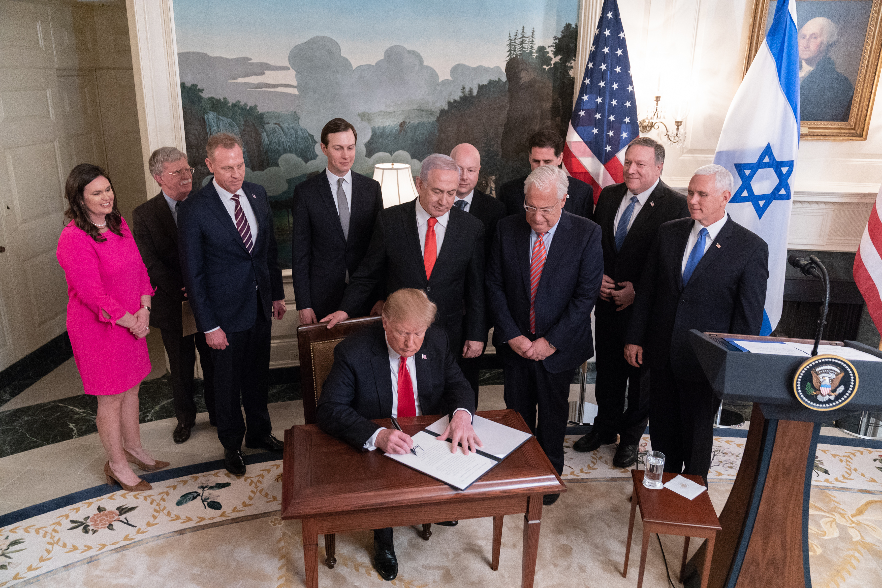 President Donald J. Trump, joined by Vice President Mike Pence and Israeli Prime Minister Benjamin Netanyahu, signs a proclamation formally recognizing Israel’s sovereignty over the Golan Heights Monday, March 25, 2019, in the Diplomatic Reception Room of the White House. (Official White House Photo by Shealah Craighead)